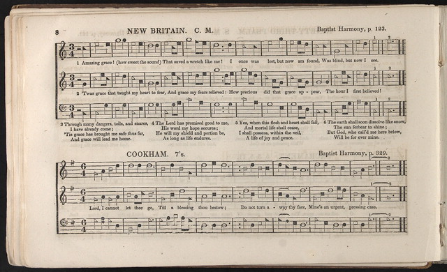 Under the title "New Britain", "Amazing Grace" appears in a 1847 publication of Southern Harmony in shape notes